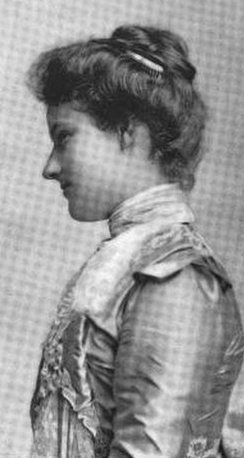 A young white woman in profile, wearing a gown, hair pinned up.